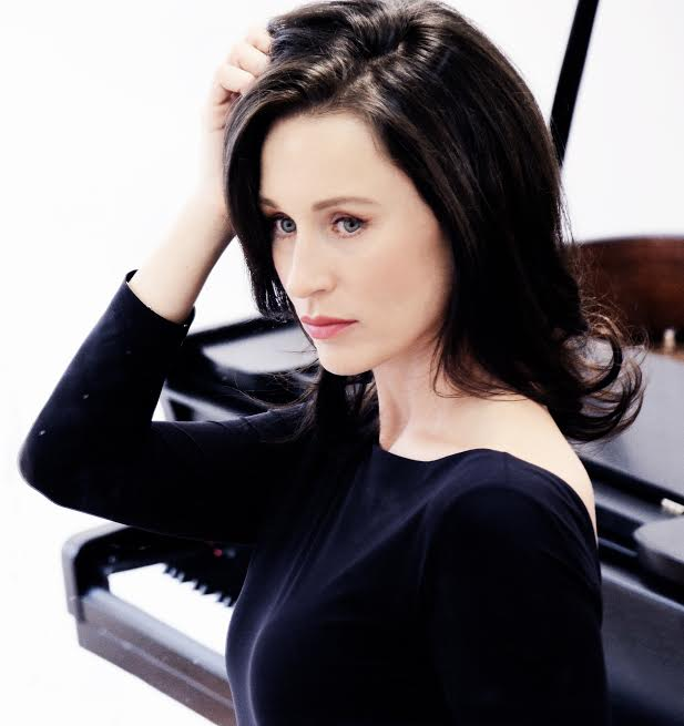 Irina Lankov